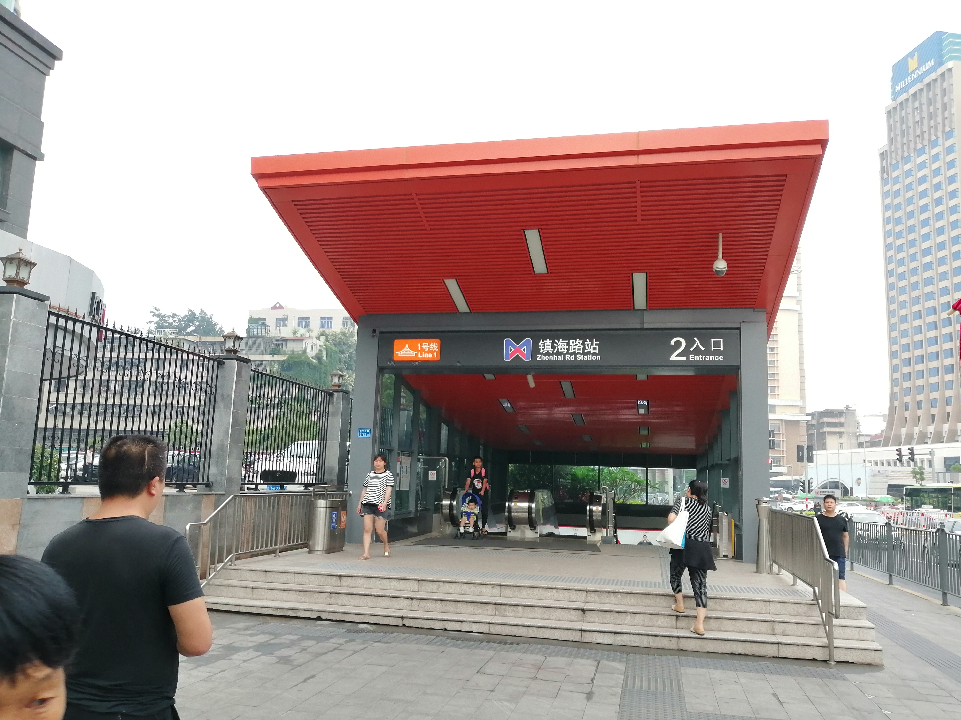 Exit 2 of Zhenhai Road Station, Xiamen Metro 中文（中国大陆）: 厦门地铁镇海路站2号出口